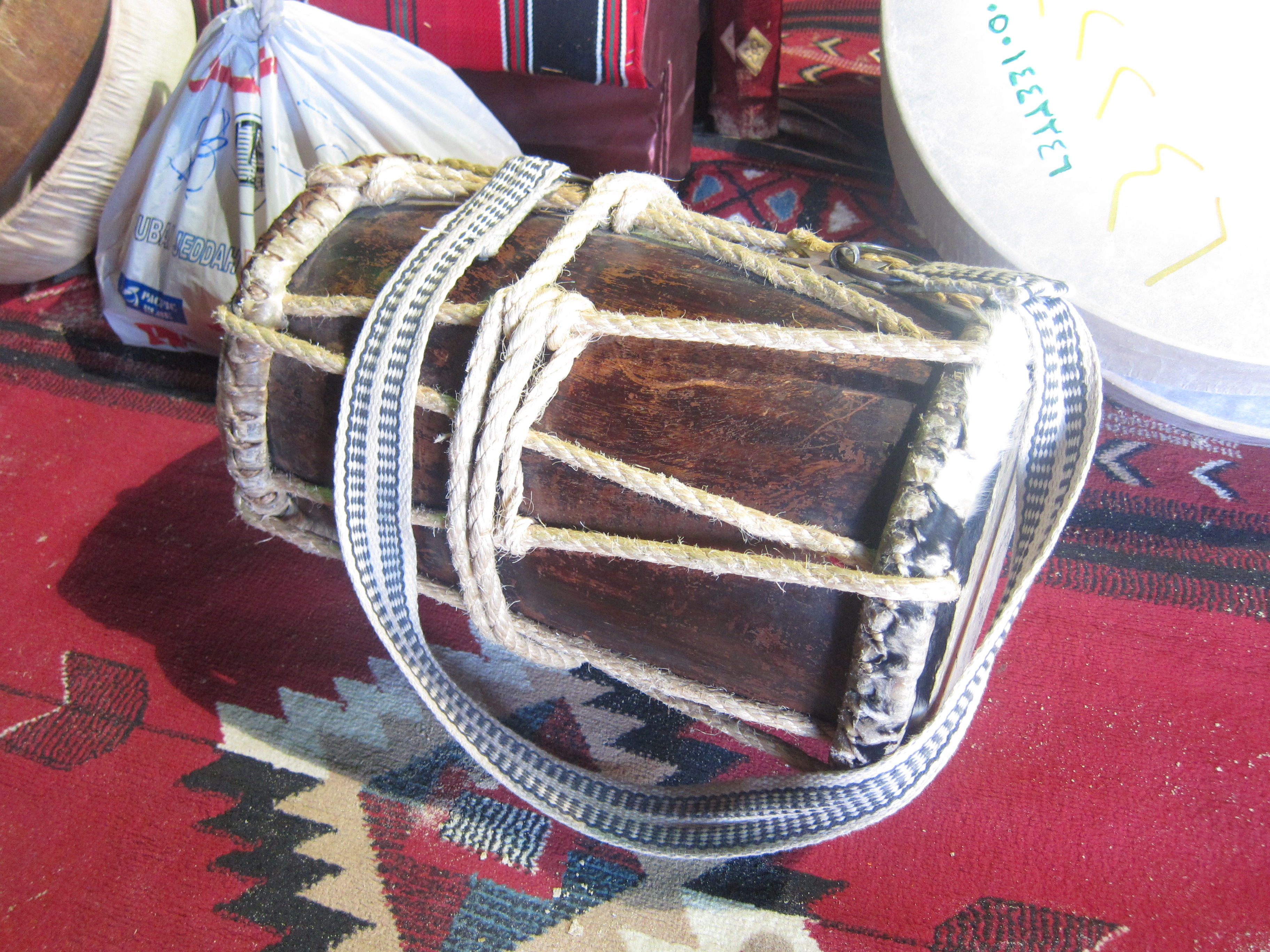 Saudi Culture - സൗദി സംസ്കാരം